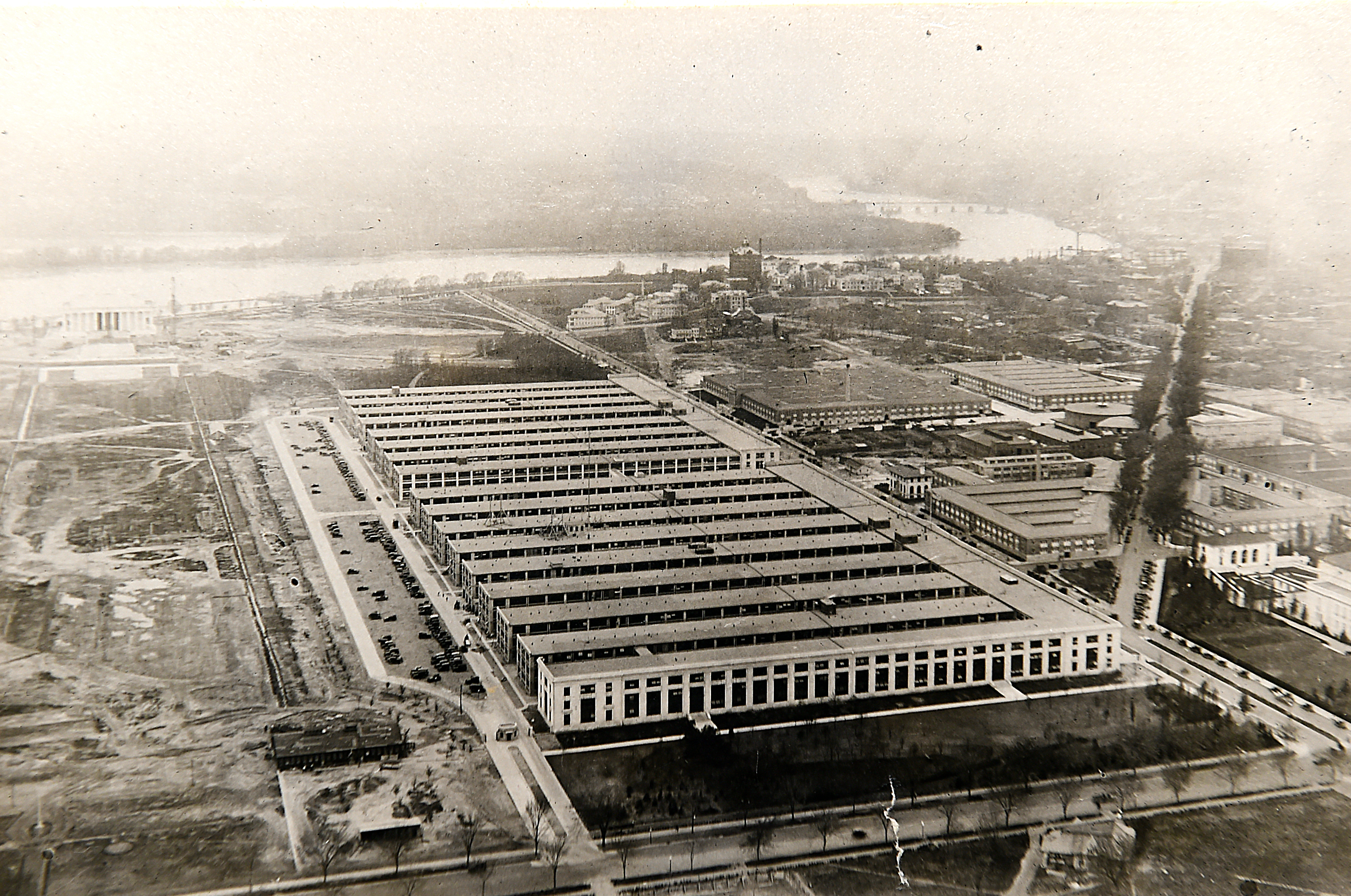 Main Navy Building (foreground) and the Munitions Building were temporary structures built during World War I on the National Mall in Washington, D.C. The buildings remained in use for several decades, and the Secretary of War was headquartered in the Munitions Building from 1936 until the Pentagon opened in 1943.